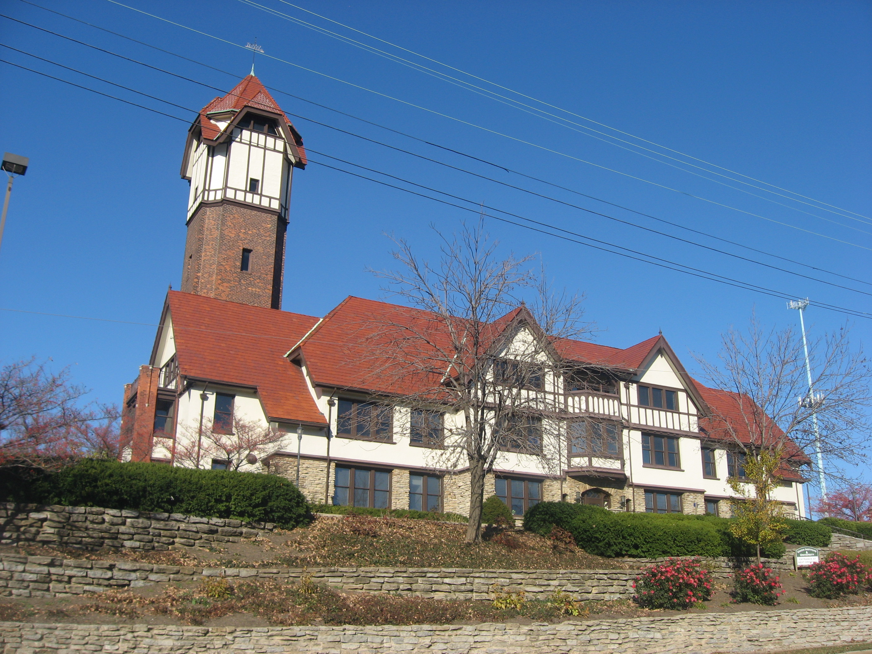 Front of the Procter and Collier-Beau Brummell Building, located at 440 E. McMillan Street in Cincinnati, Ohio, United States. Built in 1921, it is listed on the National Register of Historic Places.